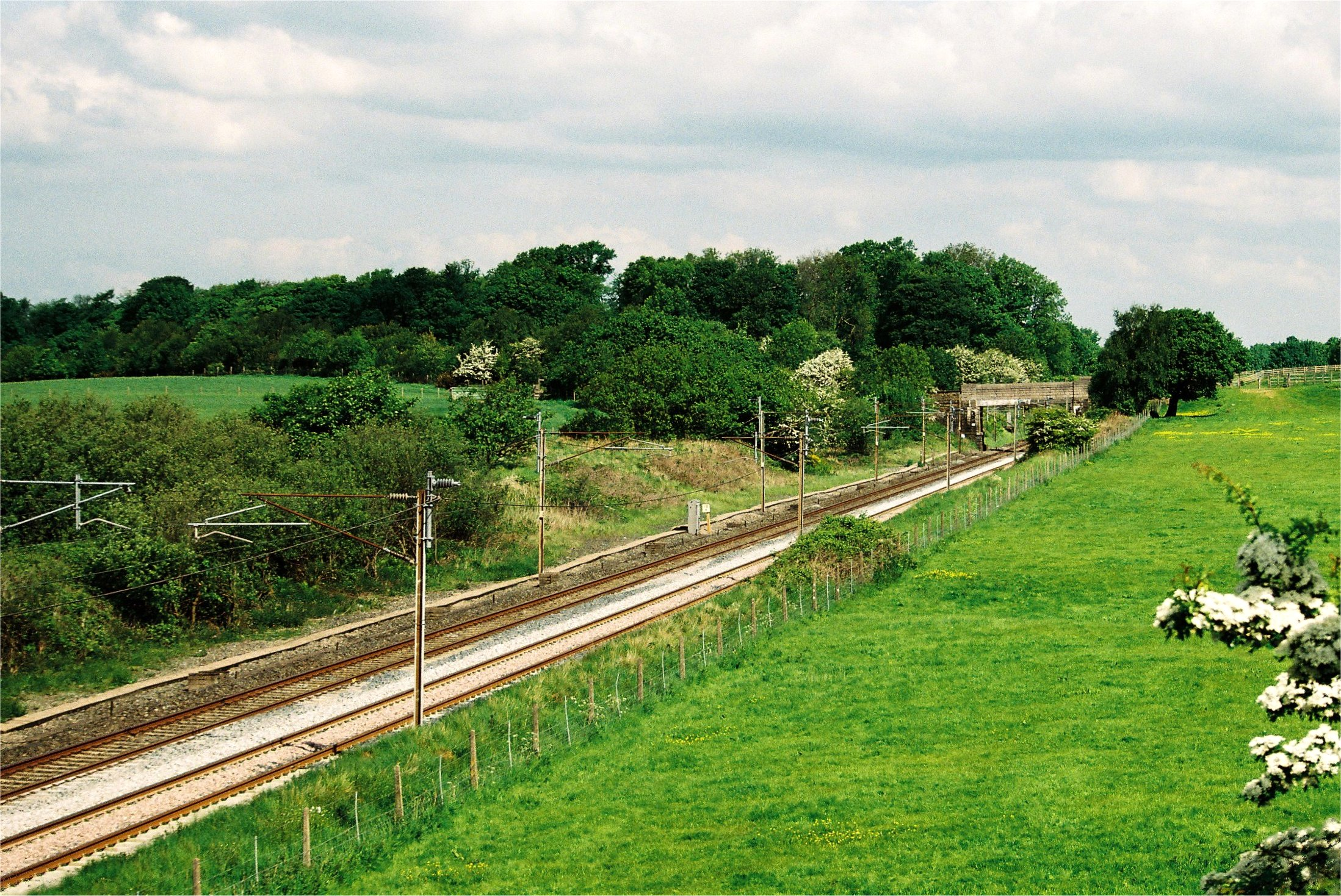 The site where the former Garstang and Knot-End Railway met the London and North Western Railway (part of the modern-day West Coast Main Line), near Garstang, Lancashire, England. The branch line passed through a cutting, now filled with trees, on the left, joining the main line immediately left of the visible bridge. The branch line continued on its own separate single track, parallel to the main line, to Garstang and Catterall railway station, one mile (1½ km) south of this location.